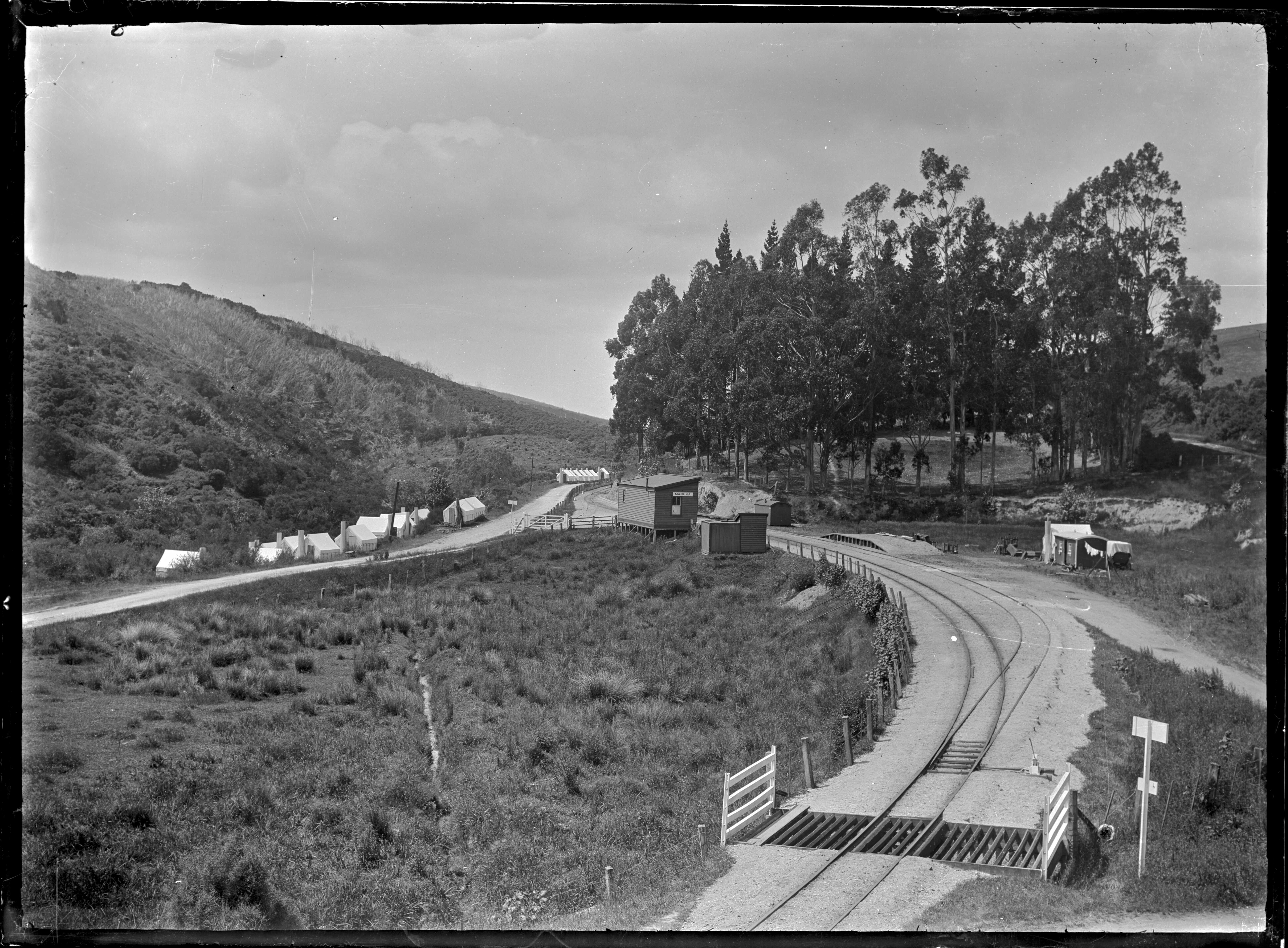 Manuka Railway Station viewed from above a level crossing (just out of site below forground). In the foreground the rails cross a cattle stop before reaching the station. There are a few houses beside the road which runs in part parallel to the railway line. Photographed by Albert Percy Godber.